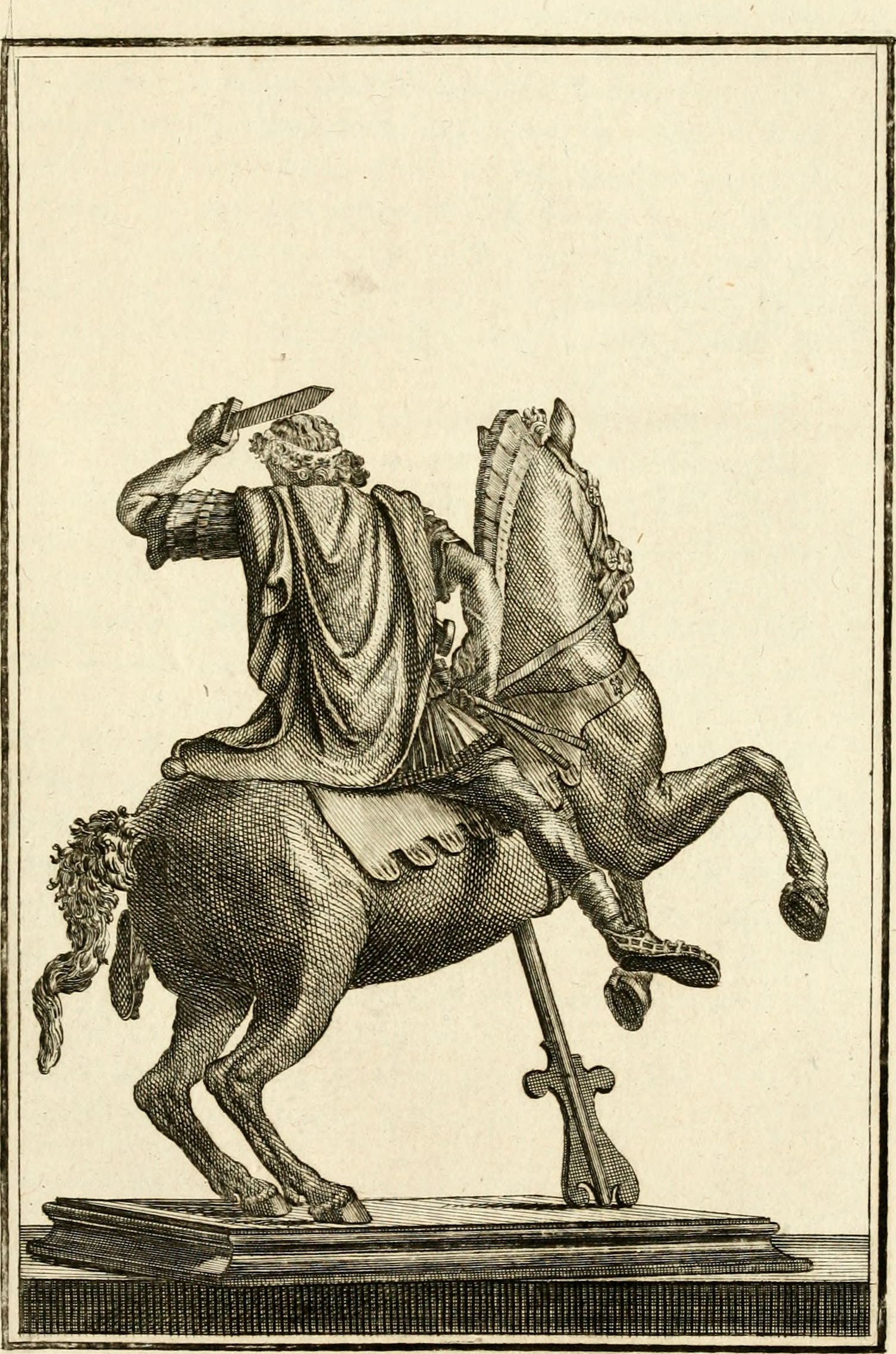 Title: Les antiquités d'Herculanum : avec leurs explications en françois Year: 1780 (1780s) Authors: David, François-Anne, 1741-1824 Maréchal, Sylvain, 1750-1803 Subjects: Art, Roman -- Italy Herculaneum (Extinct city) Herculaneum (Extinct city) -- Pictorial works Publisher: A Paris : Chez David, graveur ... Text Appearing Before Image: ■WynxW y^ Text Appearing After Image: ToinVII «r^ (45) » clarus, acieo ut nemo audeat virtutem ejus fuperare , vel op-w tare fortunam ». Lucien a confacré plufieurs diaogues à Ale-xandre. Dans lun , il lui donne le pas fur Annibal, & mêmefur Scipion , fi connu pour fa continence *. Dans lautre , lil-luflre élève dAriftote charge fon maître, & laccufe davoirperverti fon bon naturel. Néron eut auffi Seneque pour pré-cepteur. Sur quoi lon remarquera que le Roi le plus ambi-tieux t & lEmpereur le plus cruel , eurent pour Gouver-neurs deux Sages. Mais il feroit injufte de mettre fur le comptede la philofophie lambition dAlexandre , & la cruauté deNéron. Alexandre avoit encore une autre manie que celle de vain-cre ; il vouloit paffer pour un Dieu , ou tout au moins pourfils dun Dieu : mais cétoit plutôt de fa part un trait de poli-tique , renouvelle depuis lui, & avec plus de fuccès. Alexandre a joué de bonheur , en mourant à trente-troisans. Il étoit monté auffi haut quil pouvoit atteind